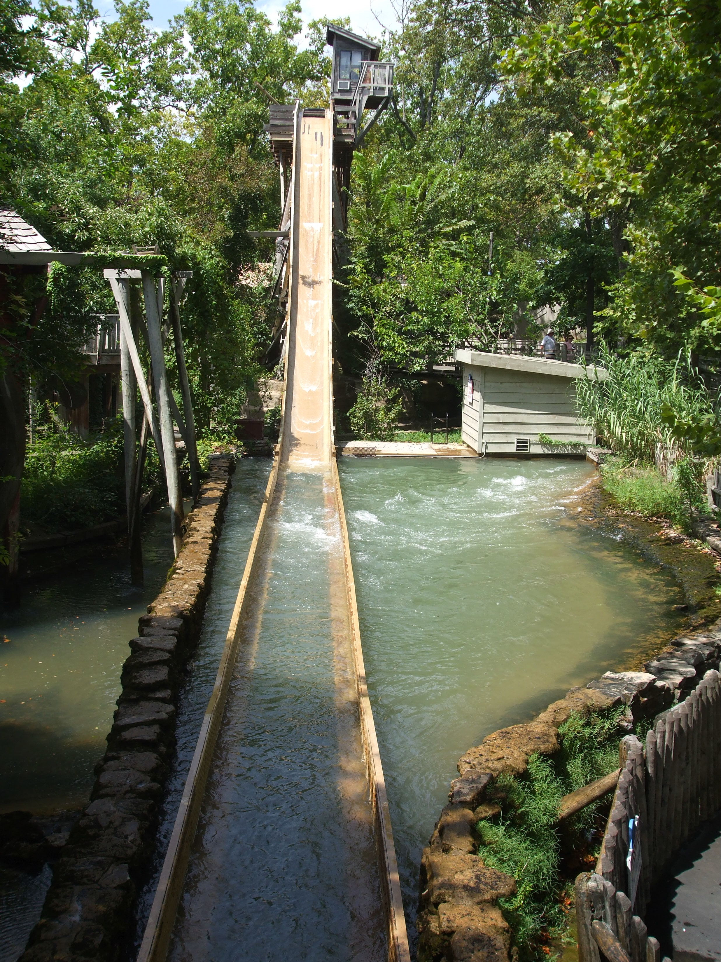 Part of the American Plunge ride